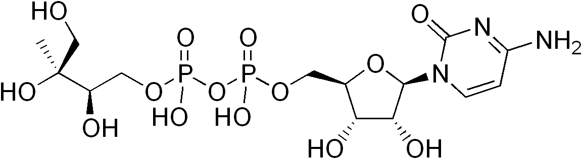 Chemical structure of 4-diphosphocytidyl-2-C-methylerythritol